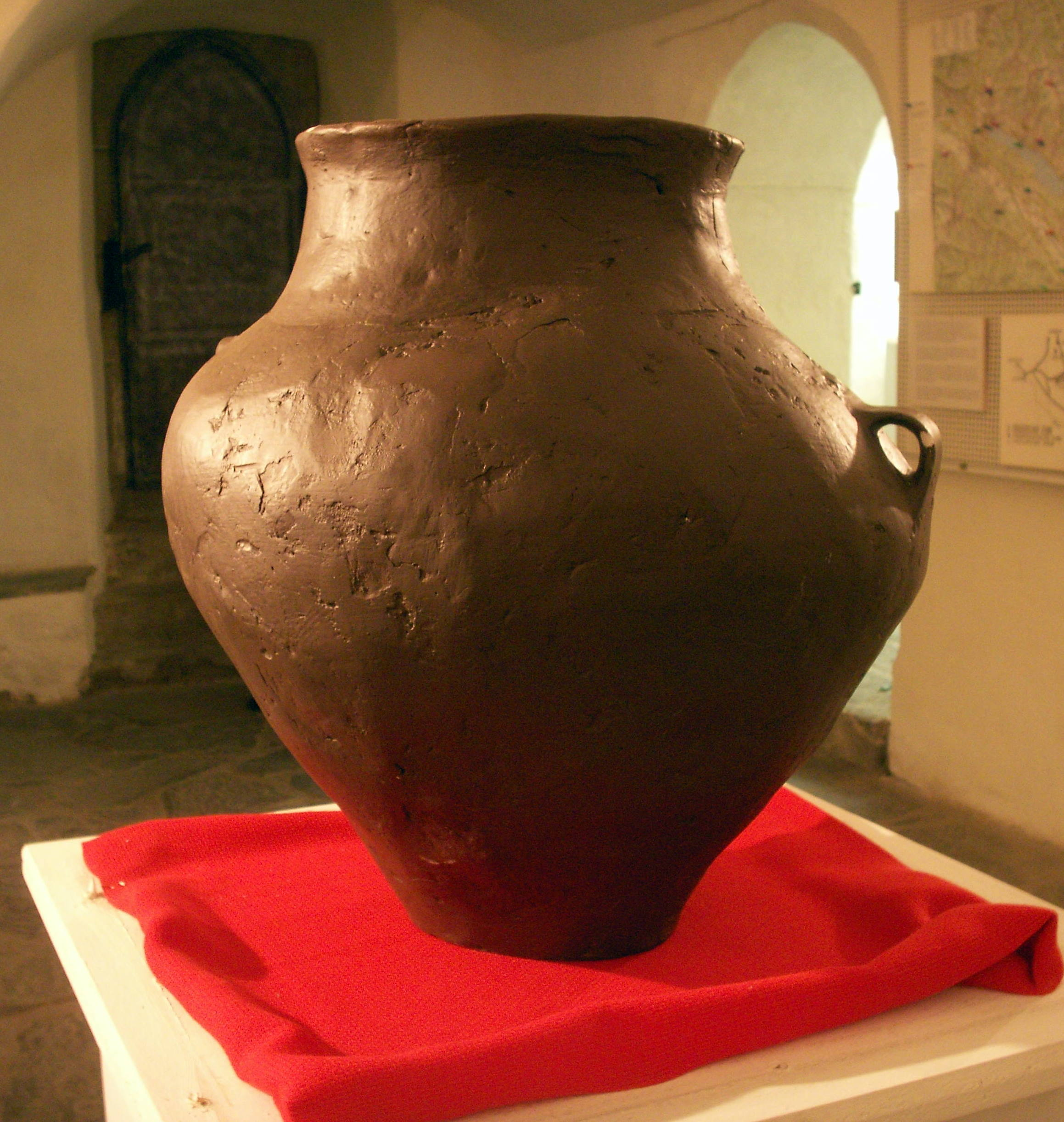 Casket of Lammersdorf Millstätter Berg near Lake Millstatt, district Spittal an der Drau in Carinthia / Austria / European Union.